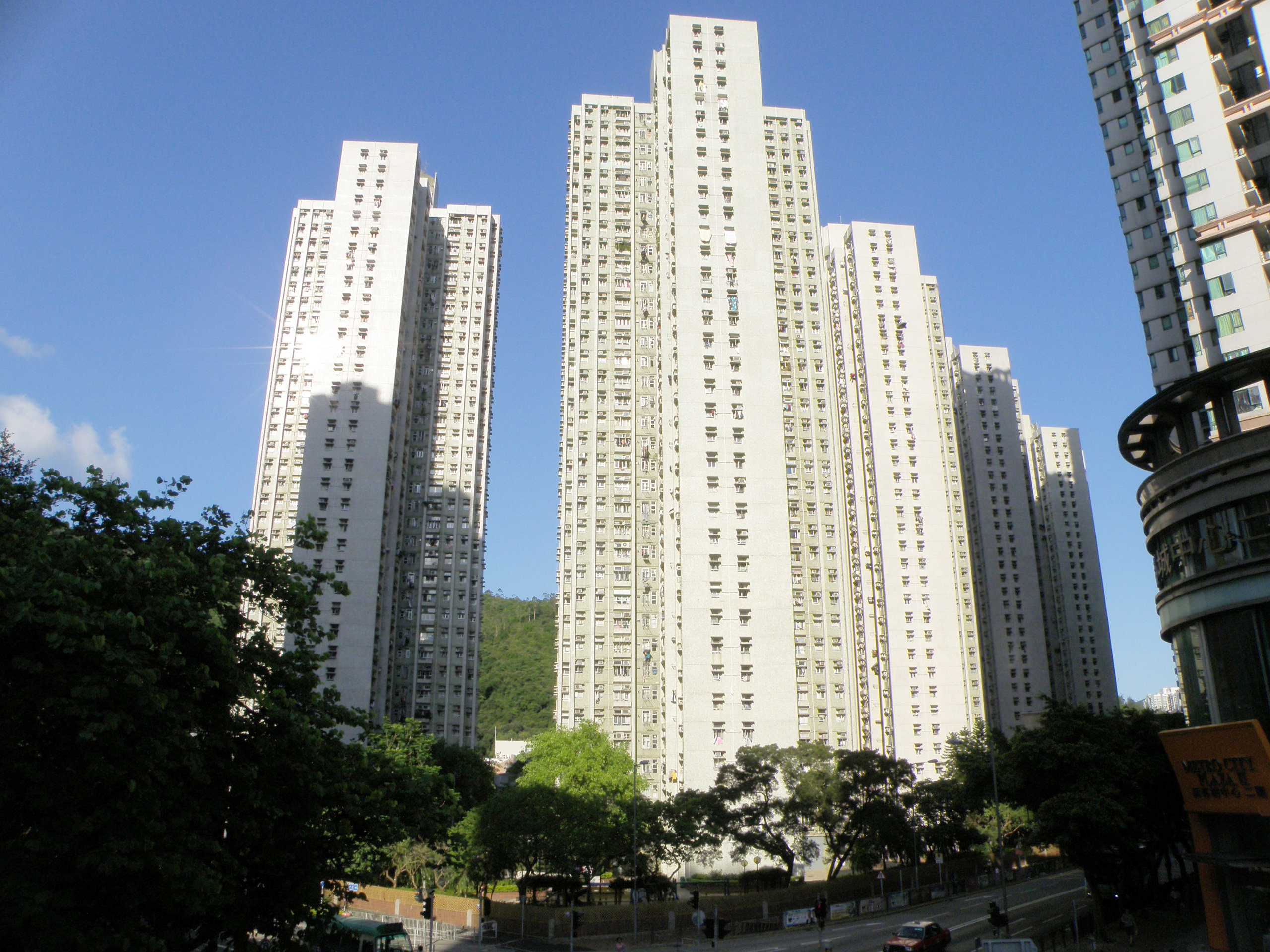 Yan Ming Court in Tseung Kwan O, Hong kong.